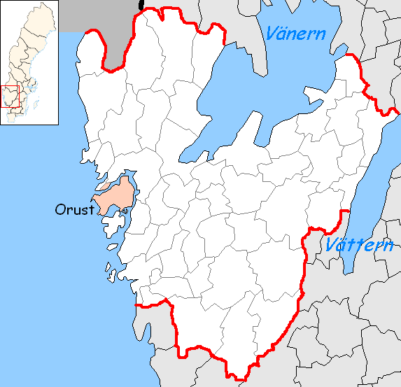 Orust Municipality in Västra Götaland County Designed by me. Mere outlines are a PD source from